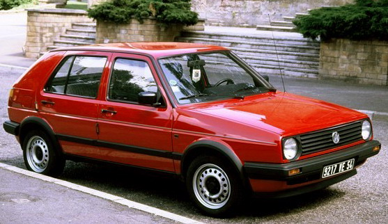 Volkswagen Golf II in north-east France